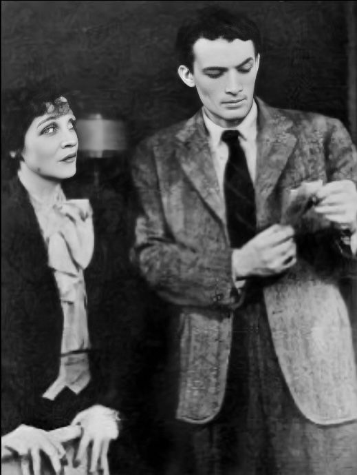 Jane Cowl and Gregory Peck in Punch and Julia play, 1942